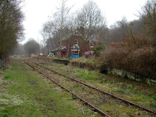 Wall Grange railway station after closure